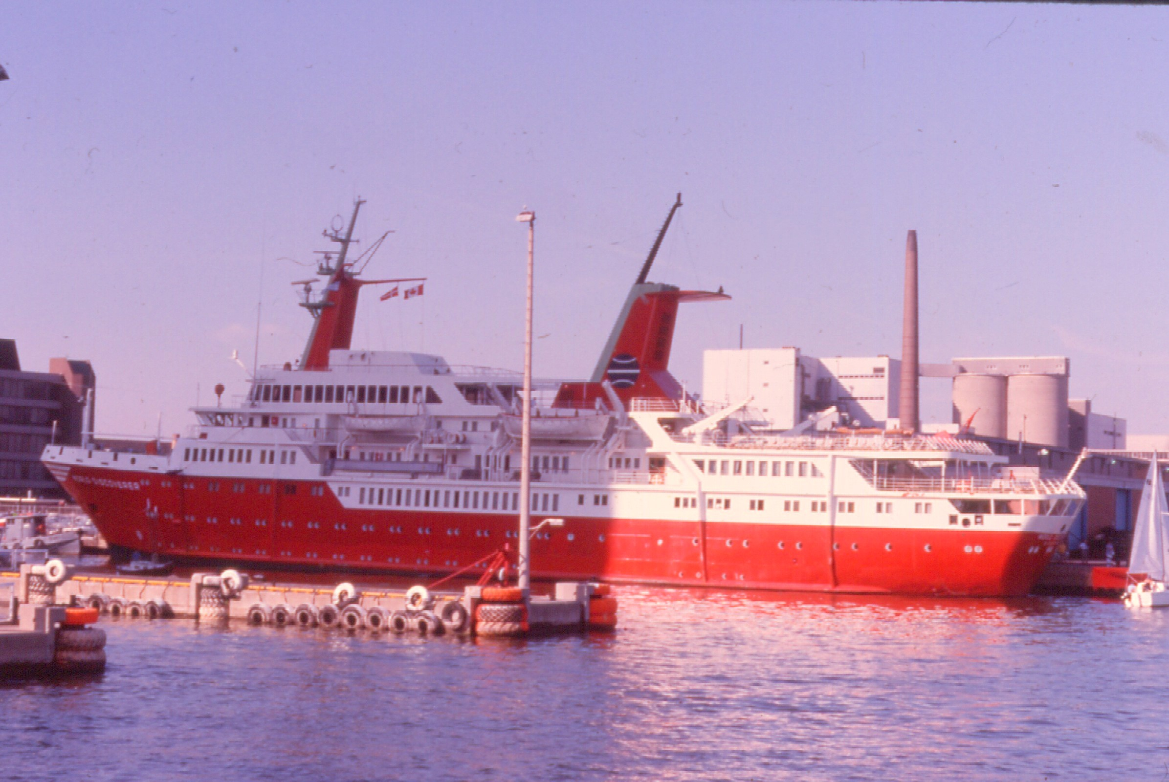 I believe this is the Lynblad Explorer. I am corrected. The ship is the World Dicoverer.